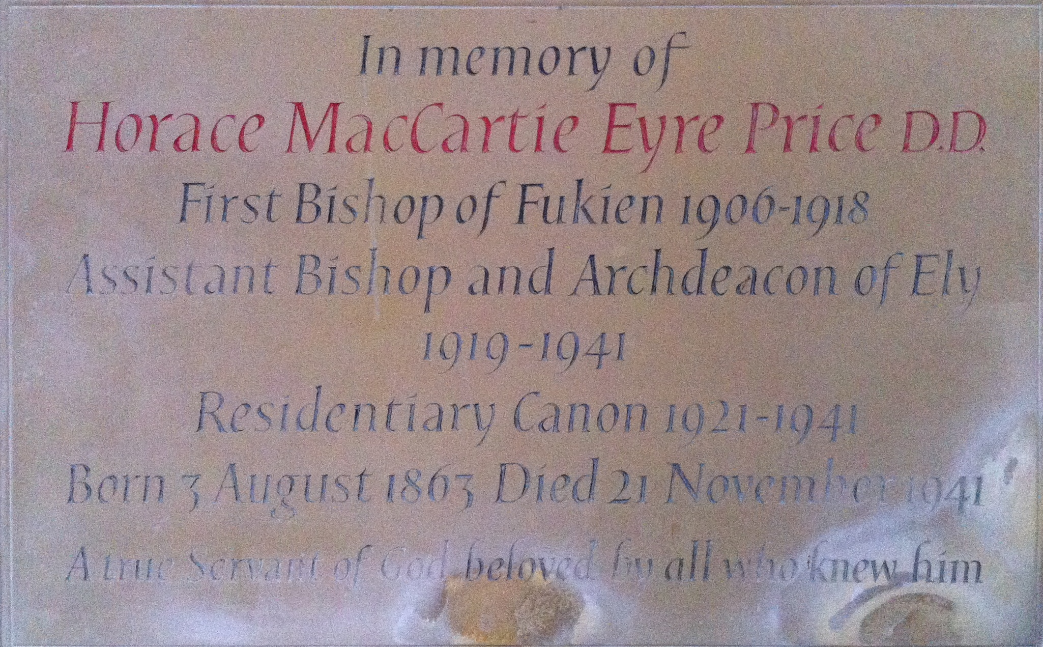 Horace MacCartie Eyre Price, First Bishop of Fukien 1906-1918, Assistant Bishop and Archdeacon of Ely 1919-1941. Residentary Canon 1921-1941. Born 3 August 1863. Died 21 November 1941.